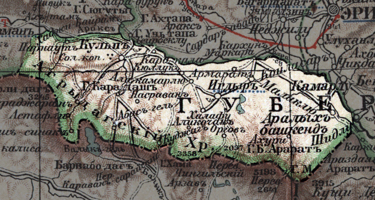 A highlighted map from 1903 of the Surmalu uyezd within the Erivan Governorate.